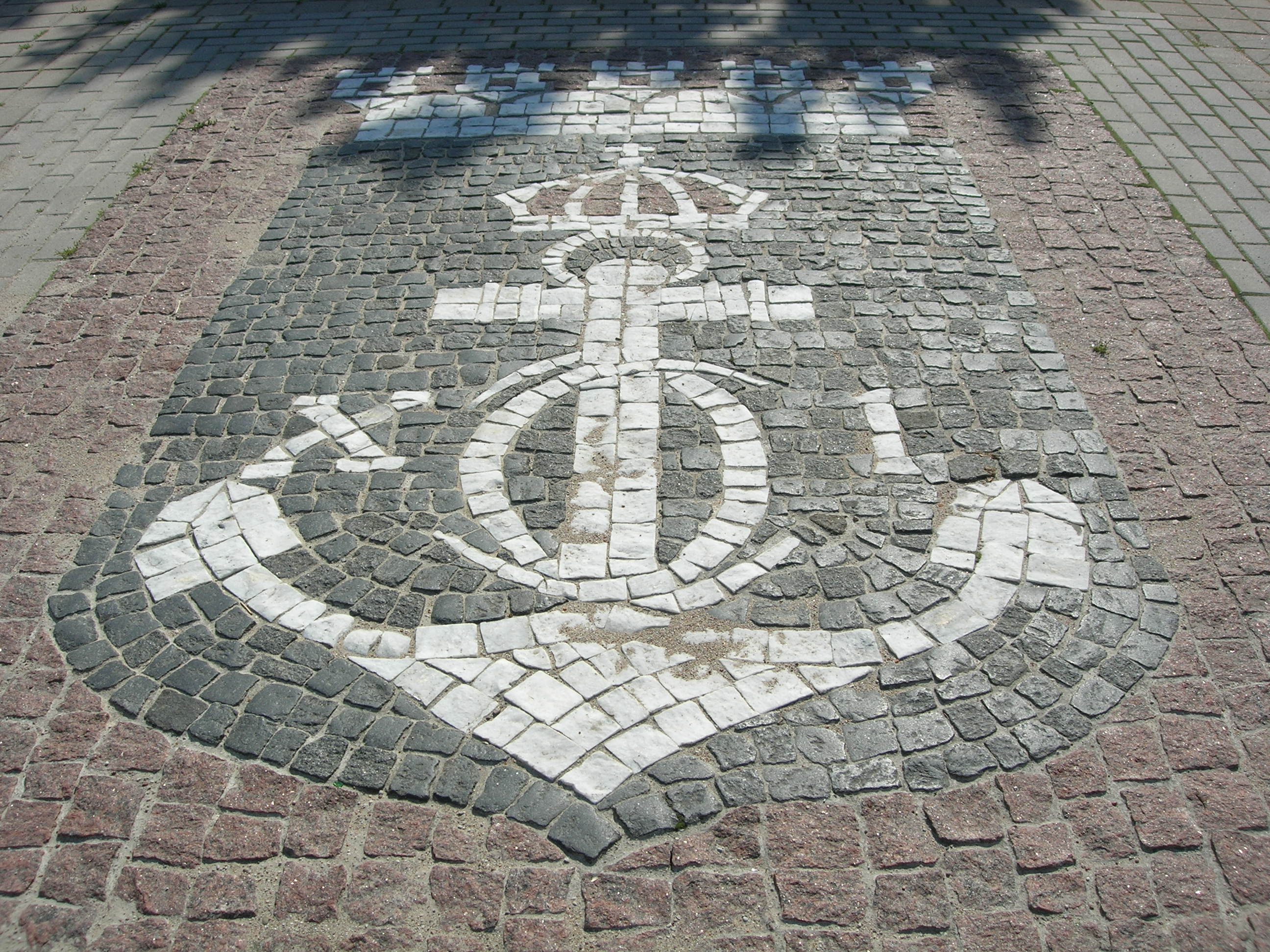 Coat of arms of Karlskrona on the Karlskrona Square (Karlskronos aikštė) in Klaipėda (Lithuania)